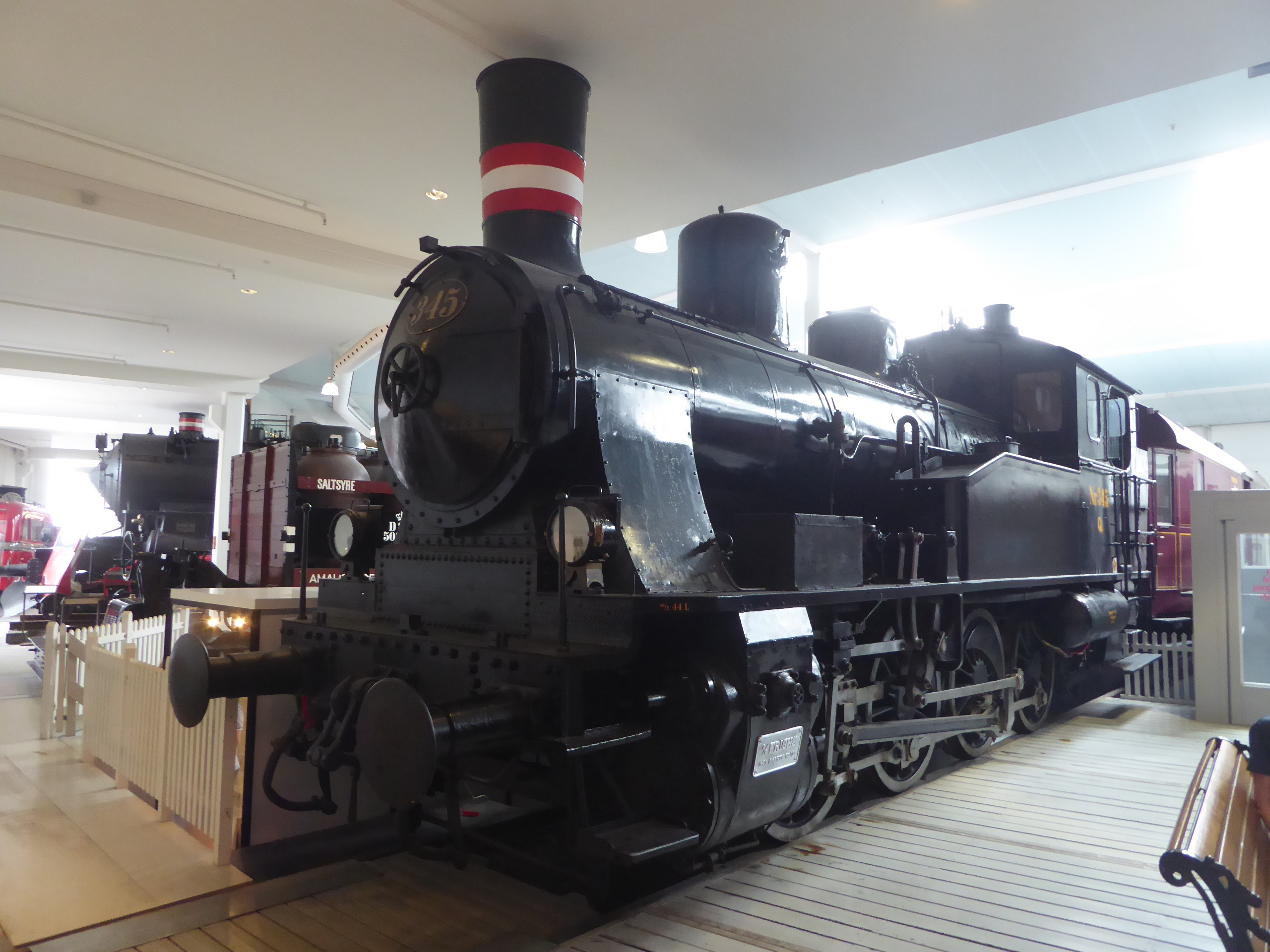 The steam locomotive DSB Q 345 build by Frichs in 1943 at Danmarks Jernbanemuseum in Odense.